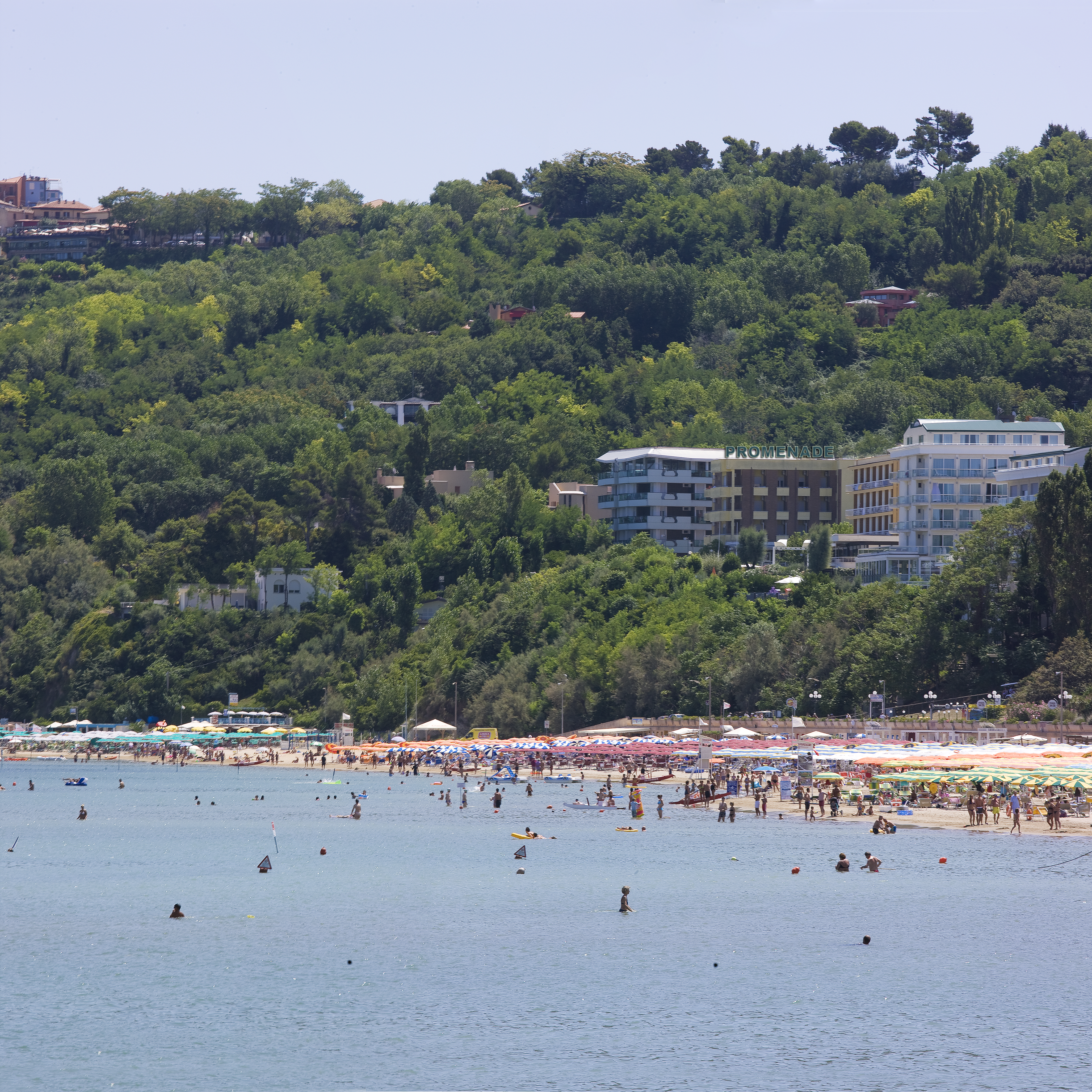 Gabicce. Hotels between sea and hills